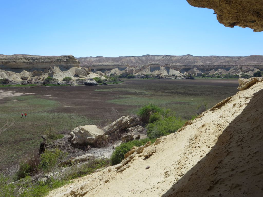 In the dry season the water evaporates completely from the Lago do Arco do Carvalhao in the desert south of Namibe, Angola.